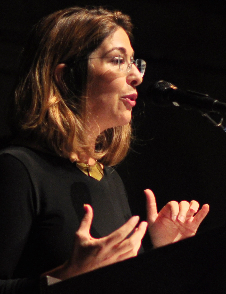 Naomi Klein speaking at an event for the 150th anniversary of The Nation at Town Hall, Seattle, Washington.